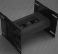 The Flettner rotor, a 7-in.-long winged biological bomblet design, was a test design that was never standardized (ie, selected to be mass produced). It could carry either liquid or dry biological agents. This type of bomblet was designed to be released from cluster bombs, dispensers, or missile warheads, and spray out agent on impact. The fins were designed to extend by centrifugal force in flight to stabilize the bomblet’s flight path to the target area.